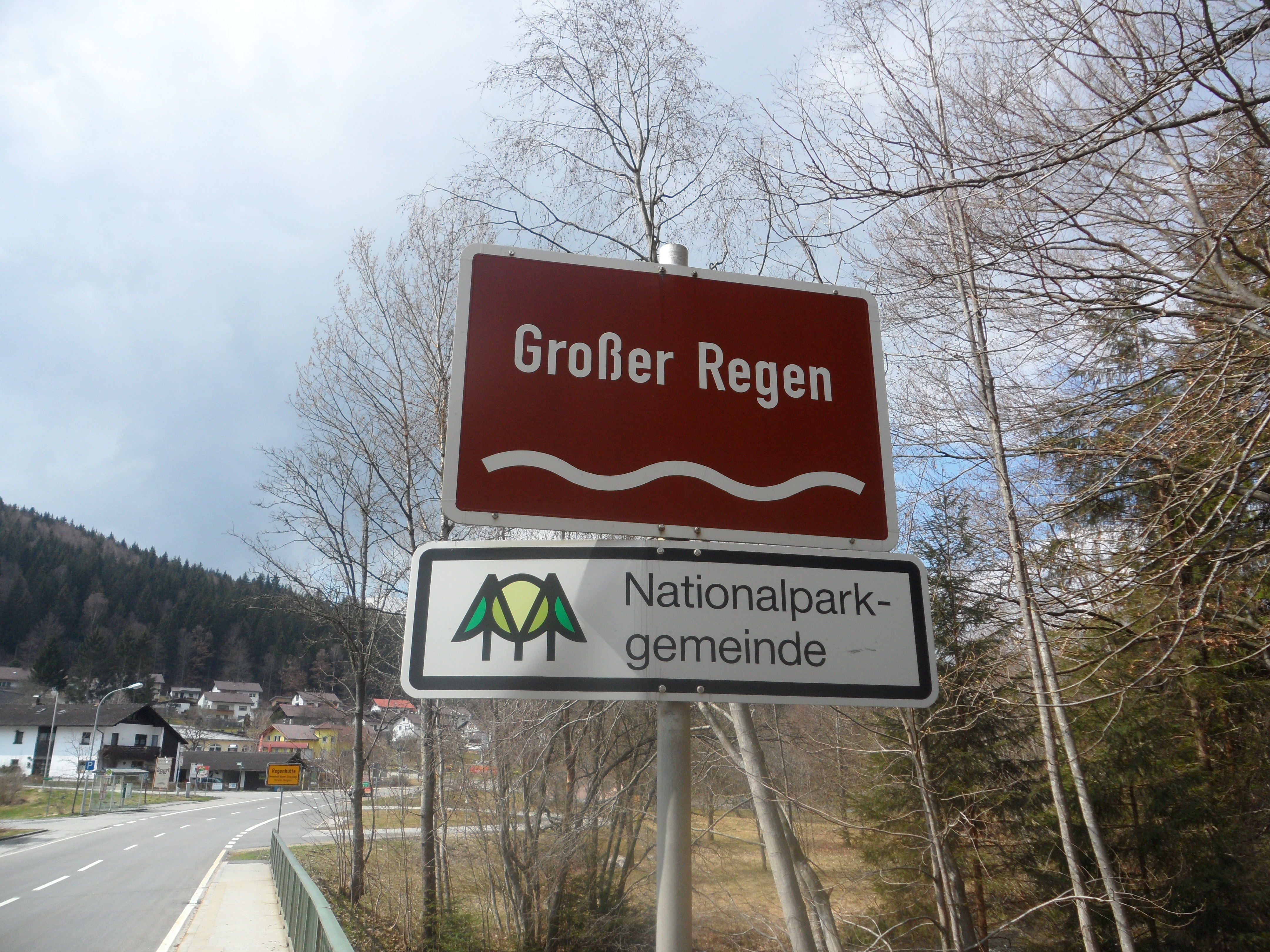 Regenhütte and signs of River Großer Regen